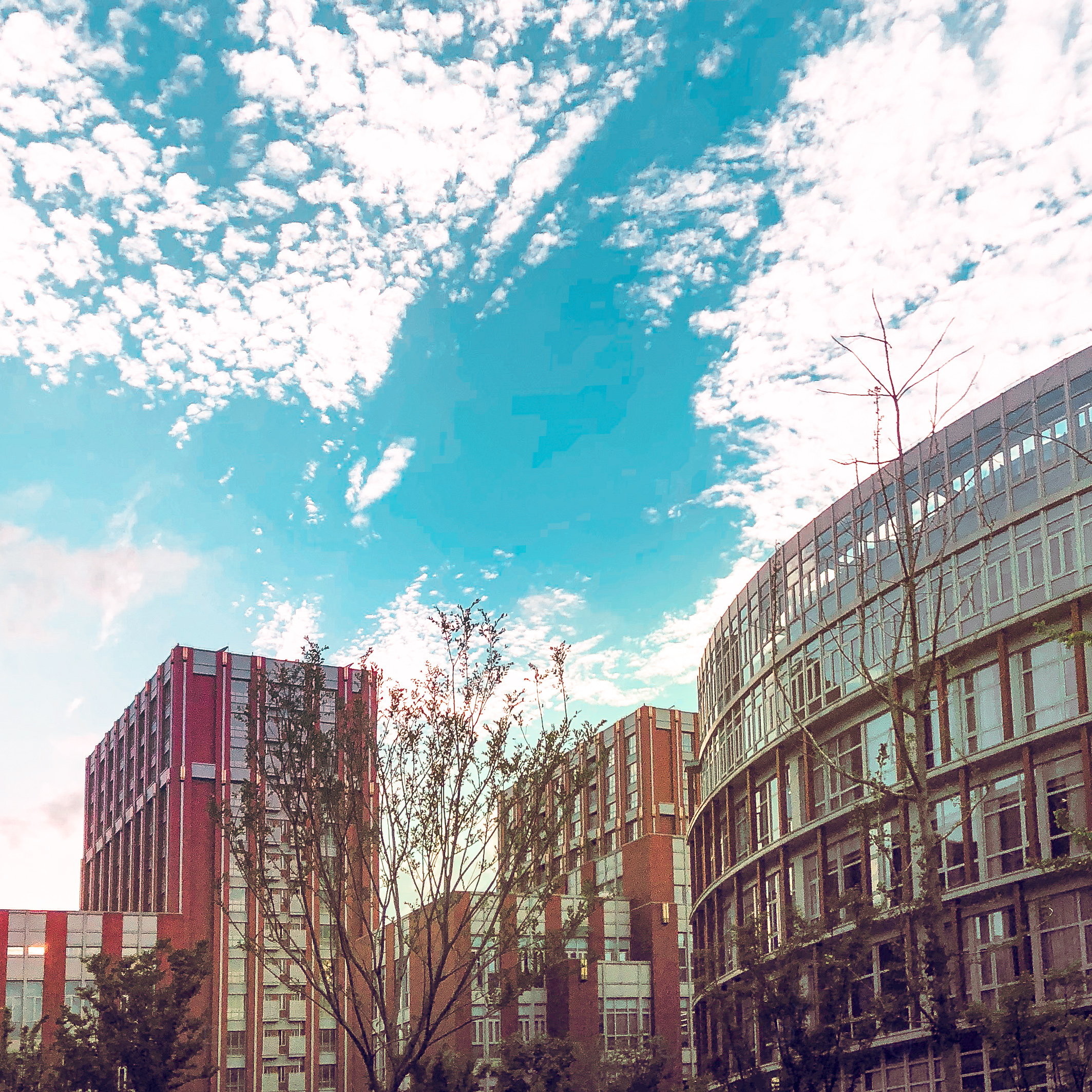 USC- SJTU Institute of Cultural and Creative Industry Building